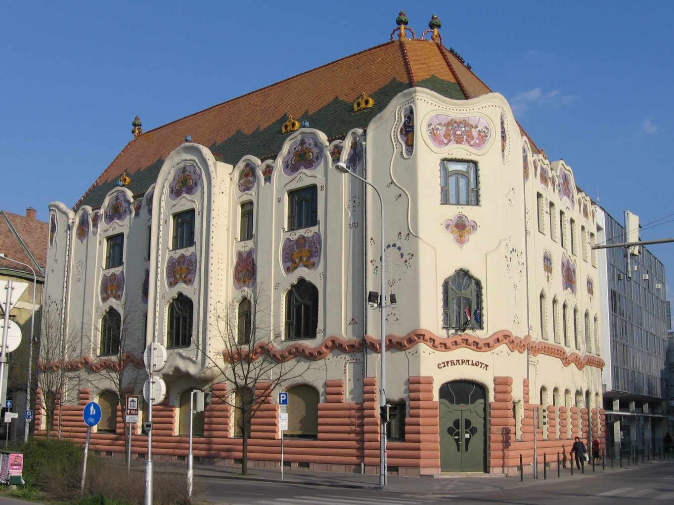 Cifrapalota, Kecskemét